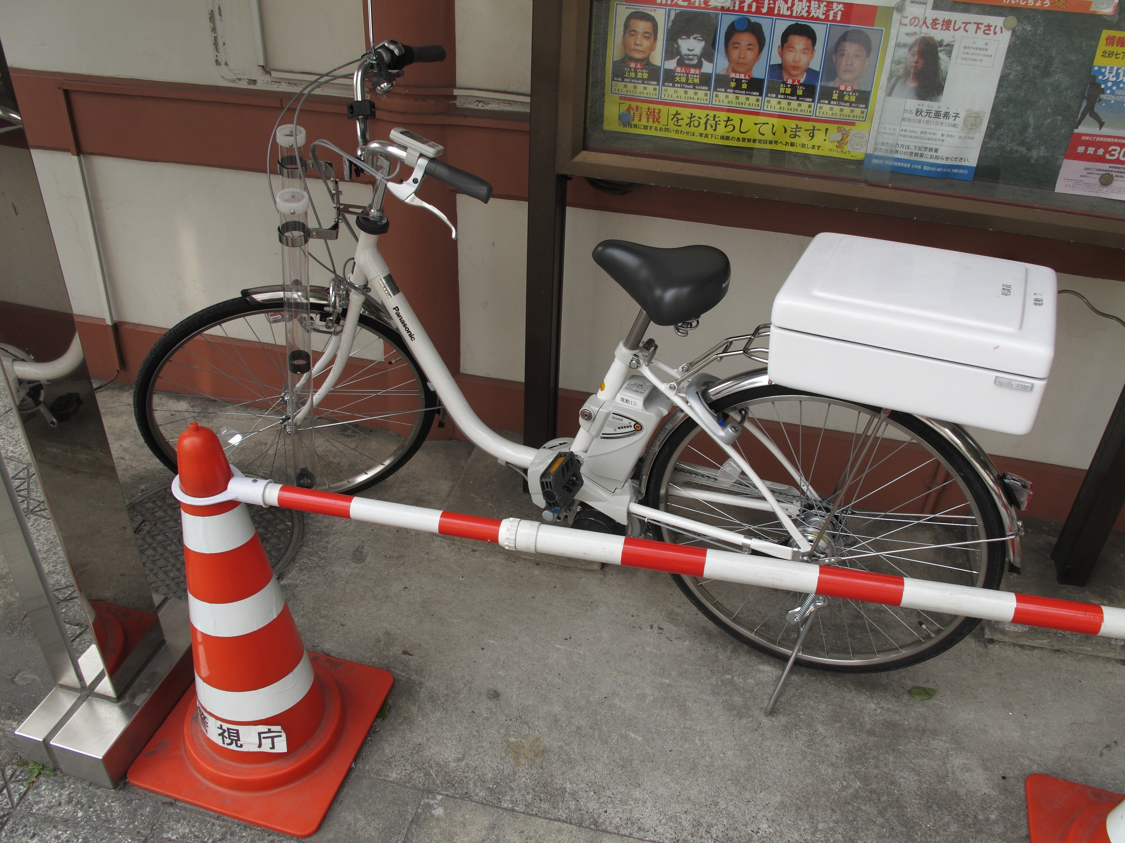 Police pedelec in Tokyo